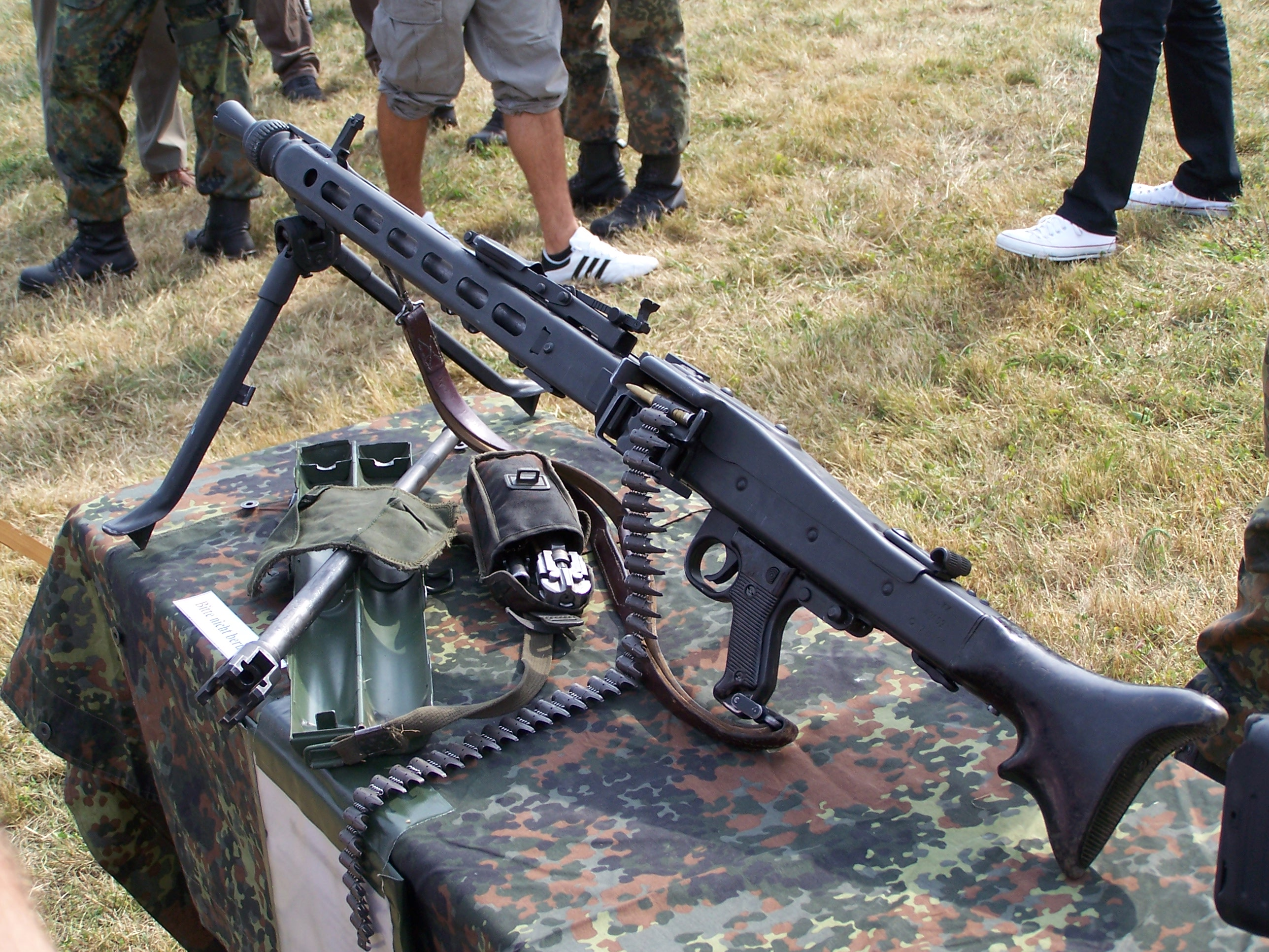 An MG3 of the German Army. A non-disintegrating metal DM1 ammunition belt with some inert rounds is inserted in the MG3.